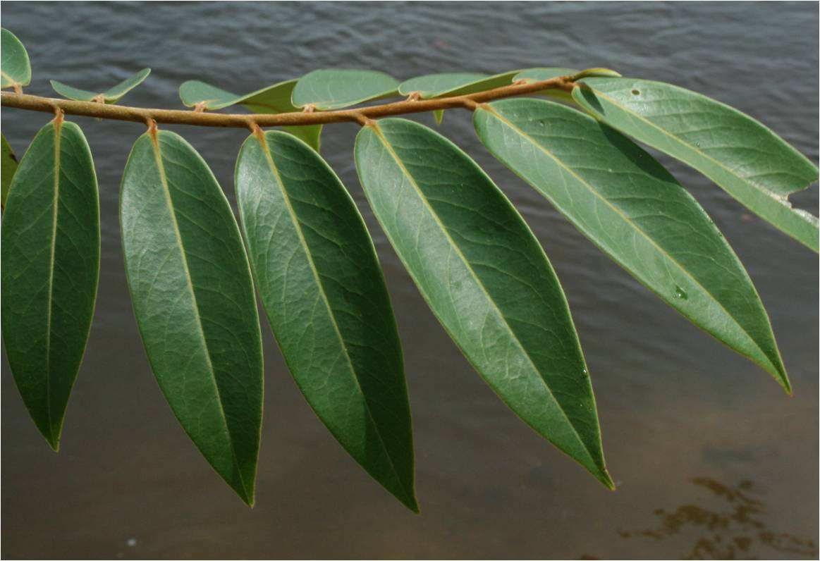 Leaves of Xylopia aromatica, Rio Ventuari, Venezuela